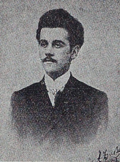 Osman Đikić (1879-1912), Serbian poet and national activist, dramatist, publicist and politician from Bosnia and Herzegovina. Taken from Istorija srpske književnosti (1906) by Jovan Grčić. Srpski (latinica): Osman Đikić (1879-1912), srpski pesnik i nacionalni radnik, dramaturg, publicista i političar iz Bosne i Hercegovine. Preuzeto iz Istorije srpske književnosti (1906) Jovana Grčića.